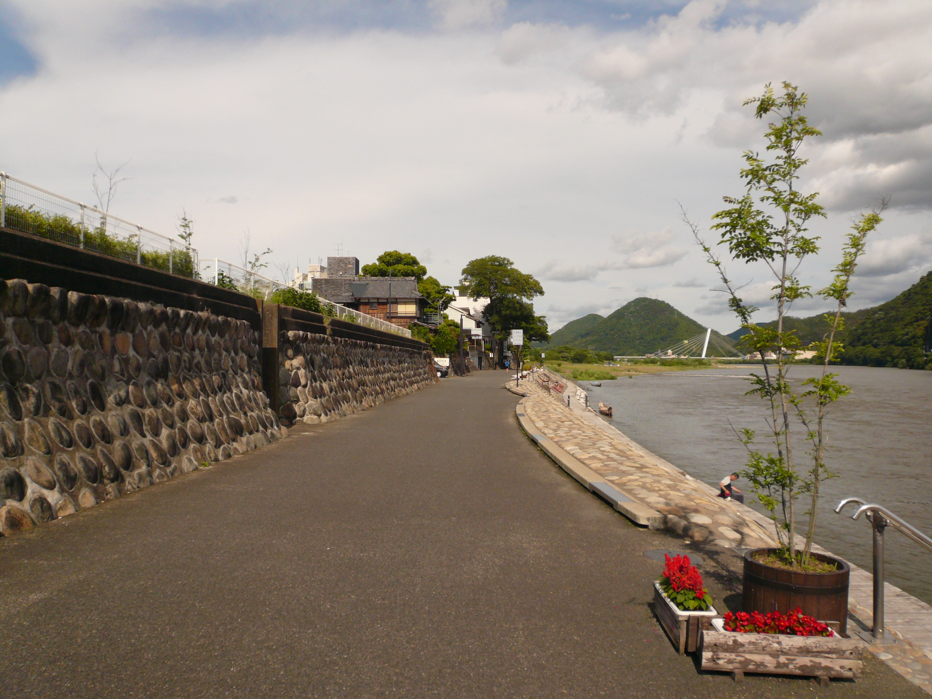 Nagaragawa Promenade, Gifu, Gifu, Japan